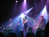 Toronto indie-rock band The Framework @ The Mod Club, Toronto